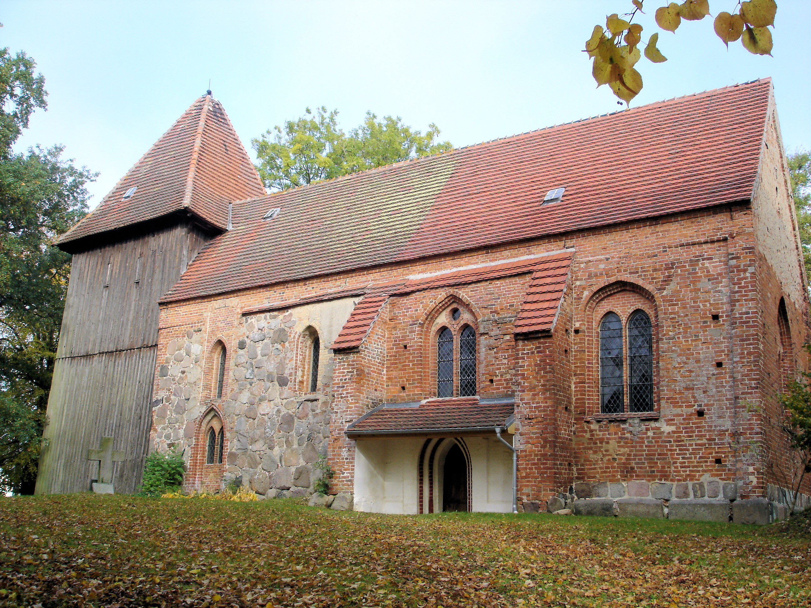 Church in Kirch Mulsow, Mecklenburg, Germany